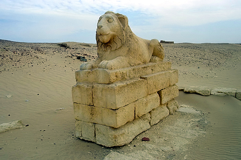 Lion sculpture at the pathway, Umm el-Burigat (Tebtunis), el-Fayyum, Egypt